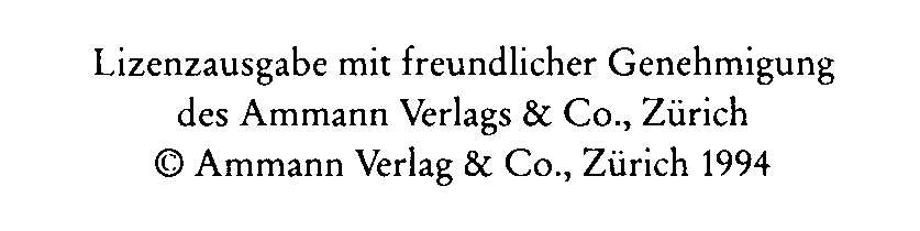 Example of a copyright notice